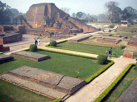 This photo is of ruins of nalanda university library.